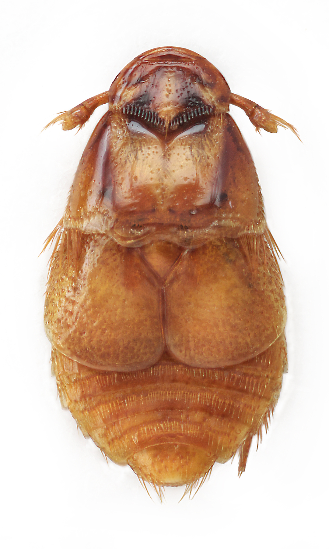 Platypsyllus castoris